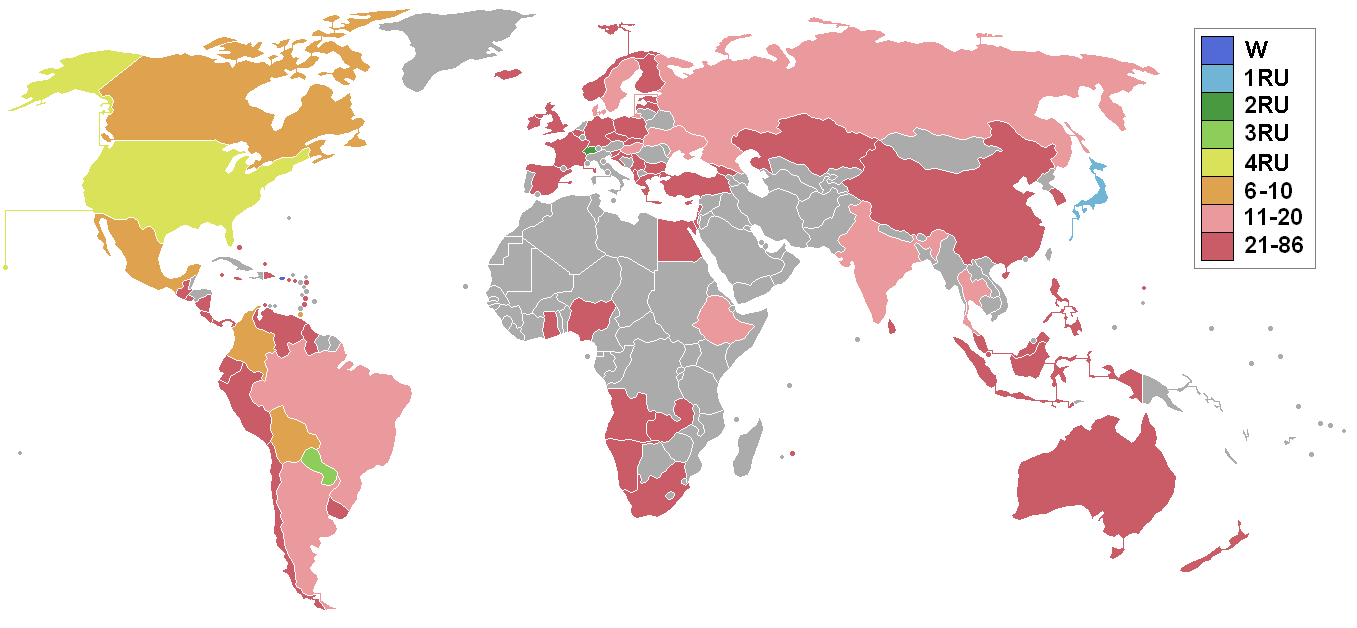 Countries and territories which sent delegates and results.